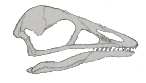 Skull of Cathayornis yandica, an extinct bird